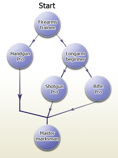 A simplified example of a skill tree, a common element of role-playing games.